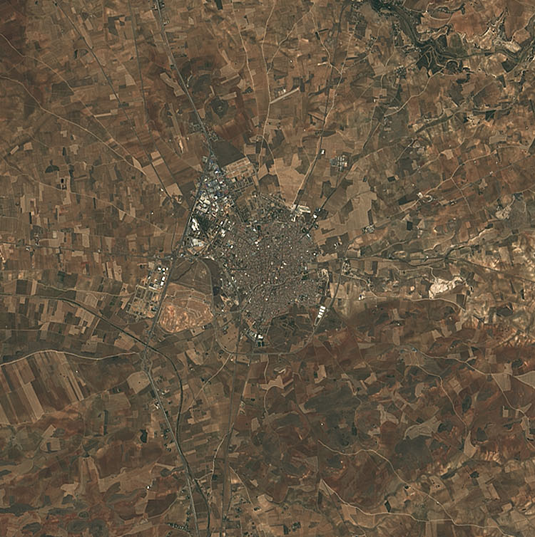 Observational Data courtesy of Landsat 8 satellite (Bands: 2, 3, 4, 8) & USGS. Data processed by Paul Quast. Data Specifications: Coordinates: 38.8807, -4.2337. Acquired: 25-July-2016 (Entity ID: LC82010332016207LGN00, Path: 201, Row: 33). Features of interest: Ciudad Real Central Airport (Abandoned Airport) [Middle]. Parque Natural Sierra de Cardena y Montoro [Bottom-Middle]. Puertollano [Middle]. Sierra Morena Mountain [Bottom-Middle]. Toledo (Outskirts) [Top-Middle].